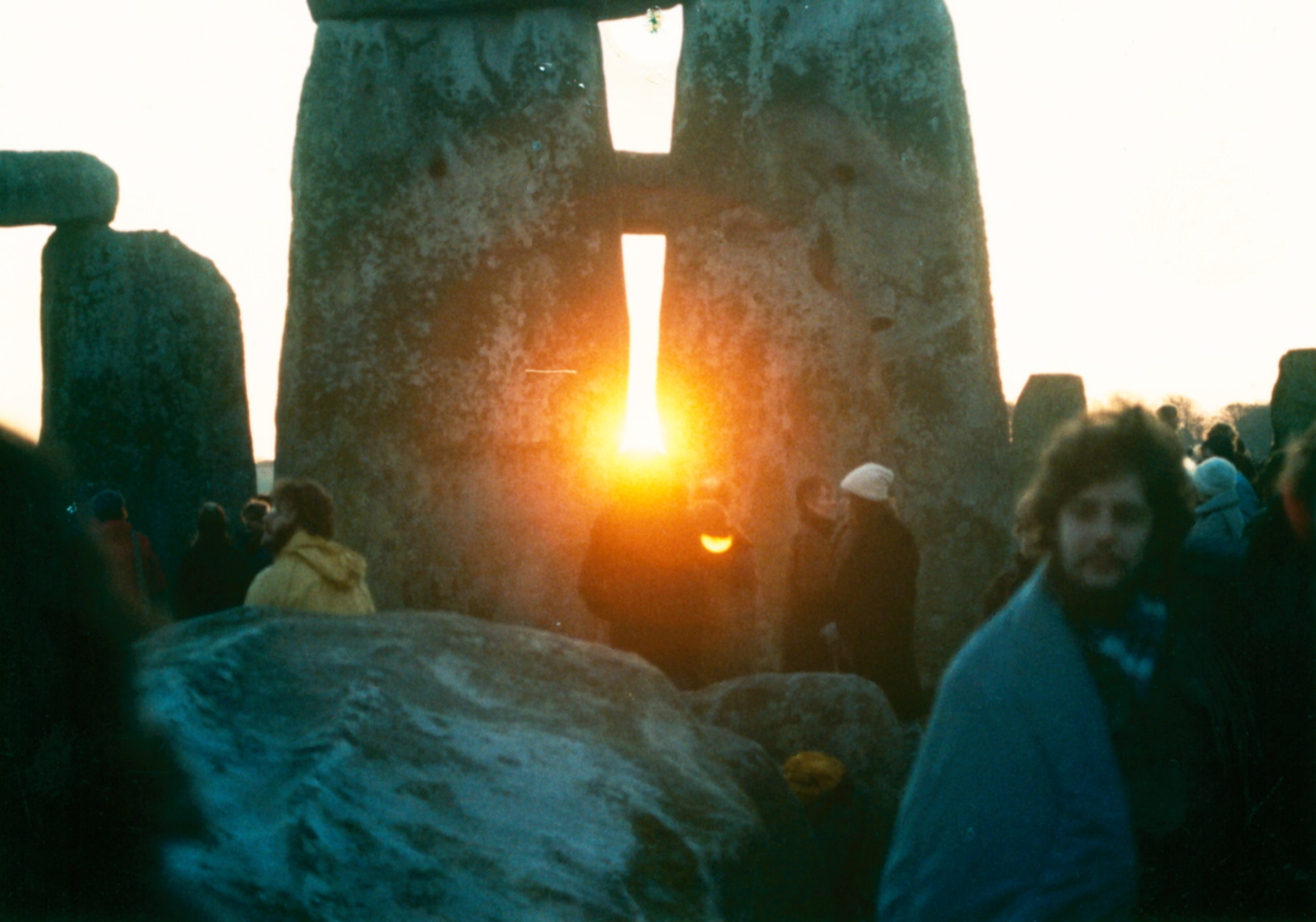 Sunrise between the stones at Stonehenge on the Winter Solstice in the mid 1980s.